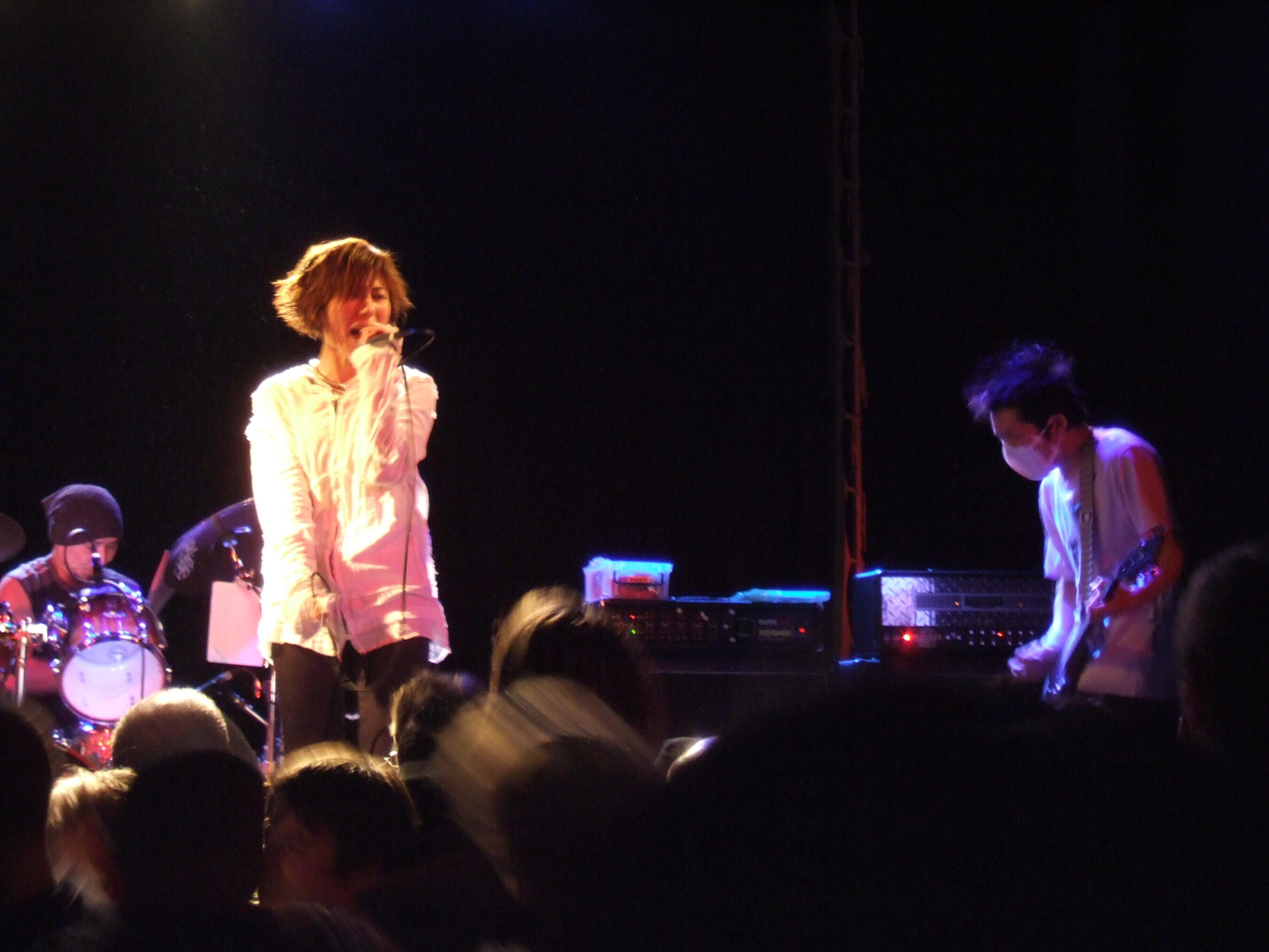 Melt-Banana live in London (2008)